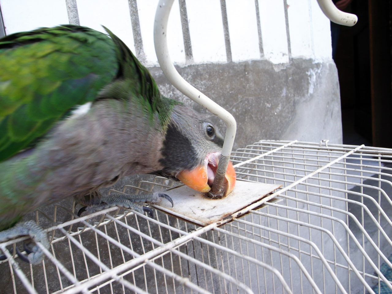 Derbyan parakeet (Psittacula_derbiana). A juvenile playing with a bolt on a cage. Juveniles have dark irises, orange-red upper and lower mandible and a green crown.